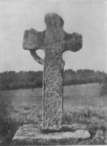 Bealin High Cross, photo by H. S. Crawford